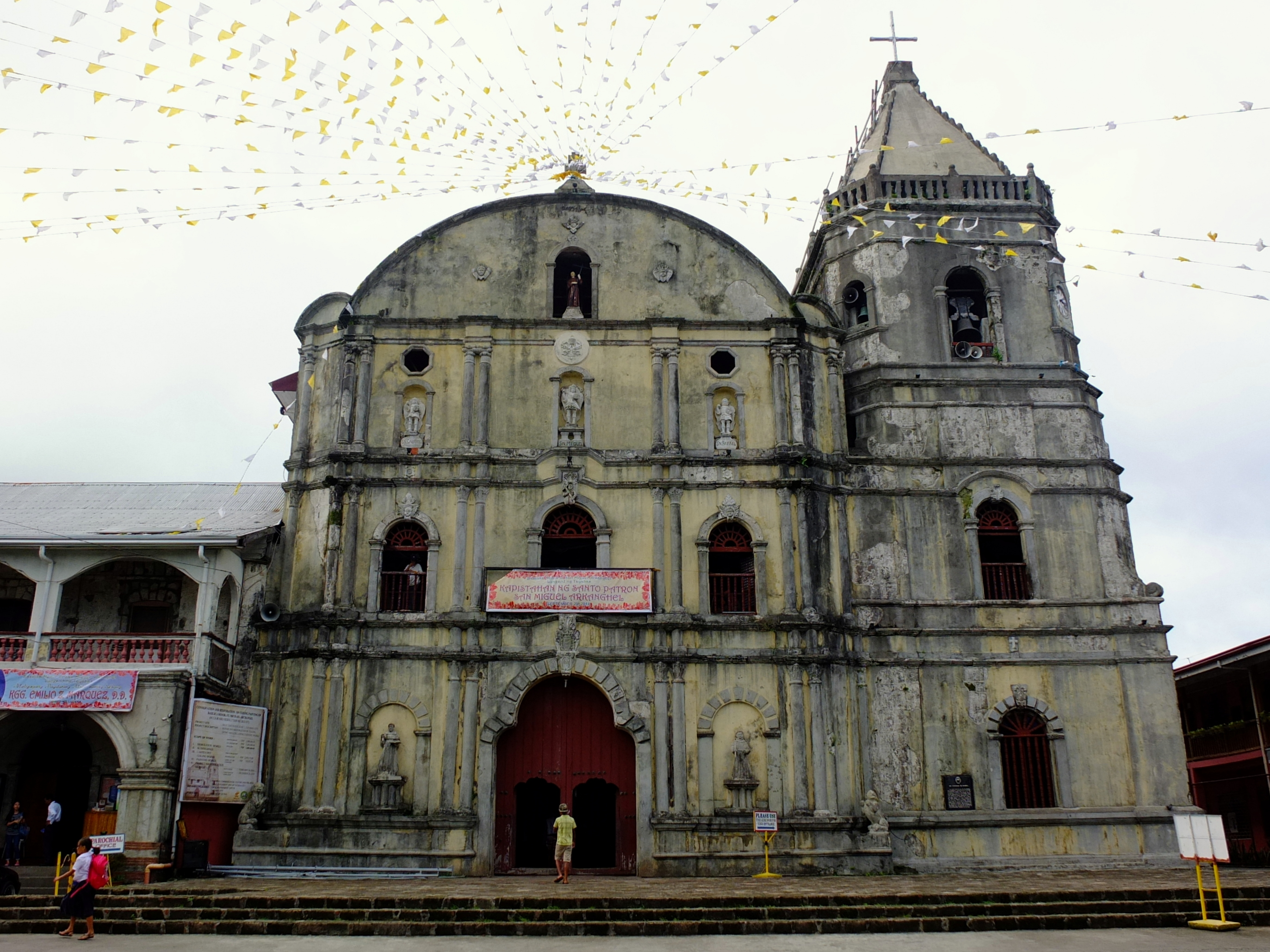 The facade of Tayabas Basilica